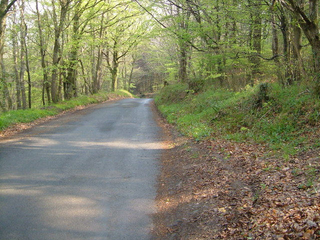 Cotley Castle. Cotley Castle is a hillfort (straddling two squares) entirely covered in woodland. Here the lane runs along the western edge of it.